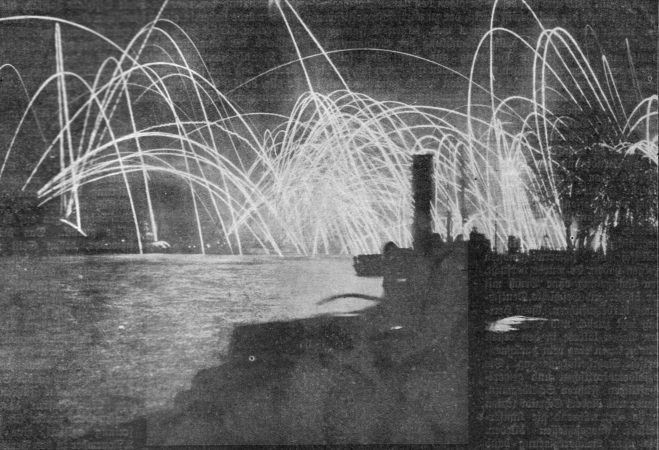 Fireworks of the german fleet in Wilhelmshaven - proclamation of the german Republic